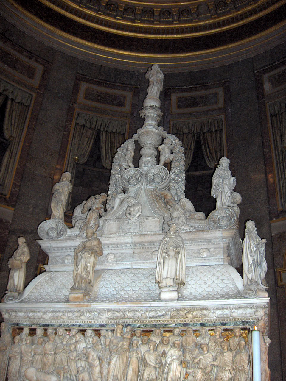 upper front part; Basilica of Saint Dominic, Bologna, Italy